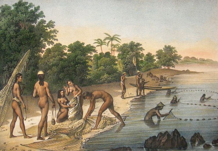 Marianeninseln, coloured lithograph of the Mariana Islands in the north-western Pacific